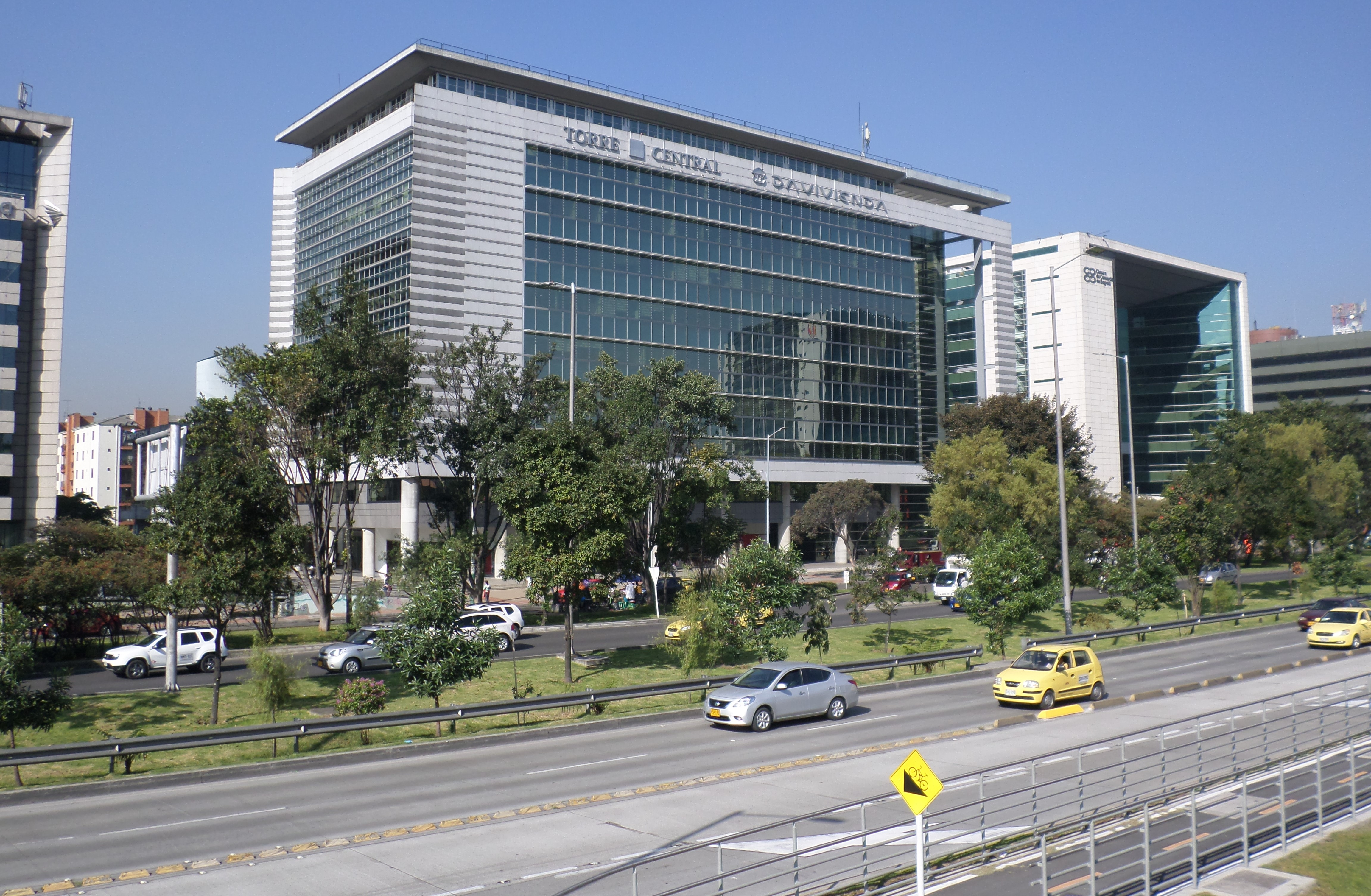 Davivienda